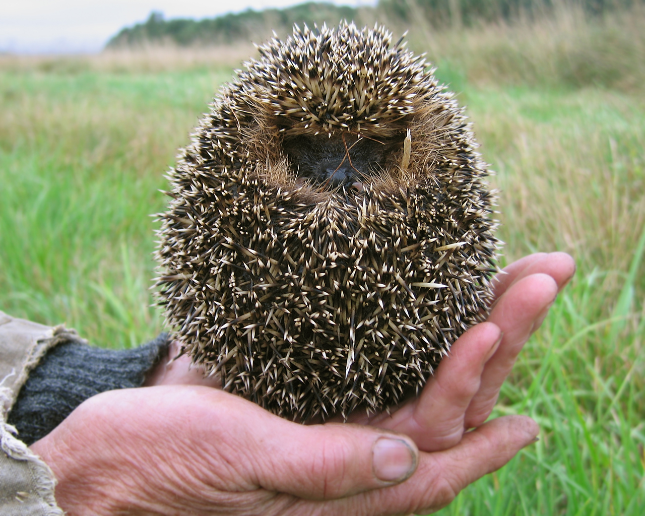 Russia, Nature of Yaroslavl Oblast, Erinaceus europaeus